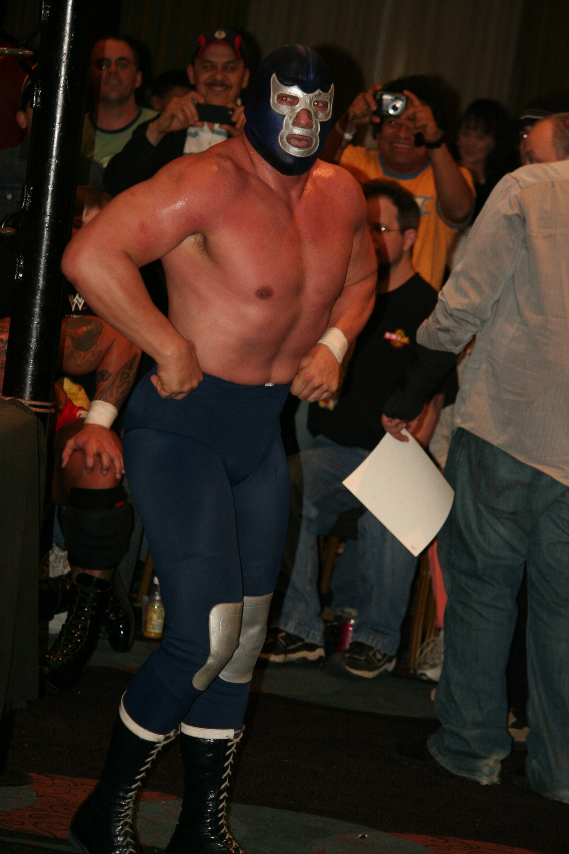 Professional wrestler Blue Demon, Jr. at an NWA show on March 14, 2010.